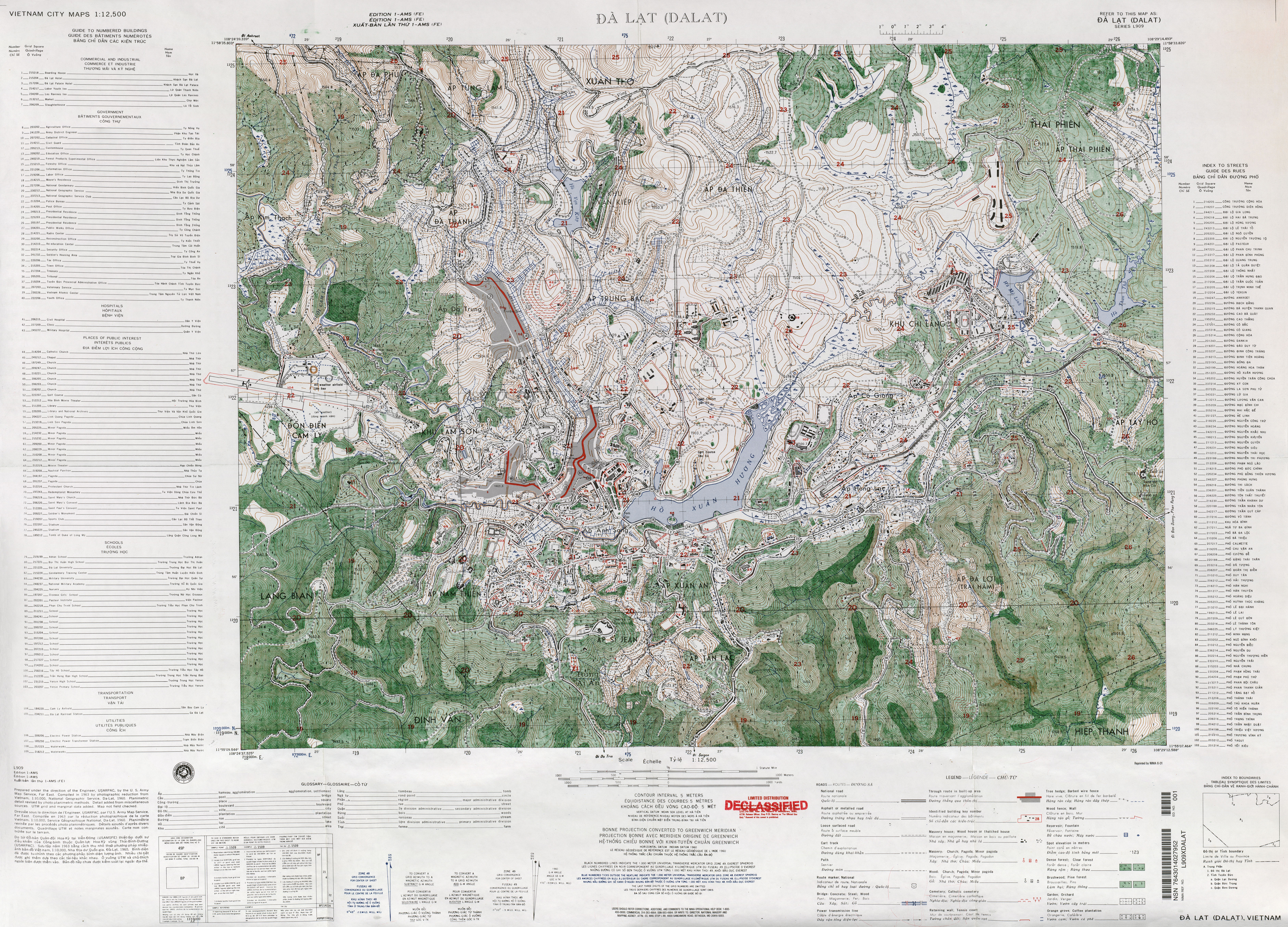 Map of the city of Da Lat, 1963.